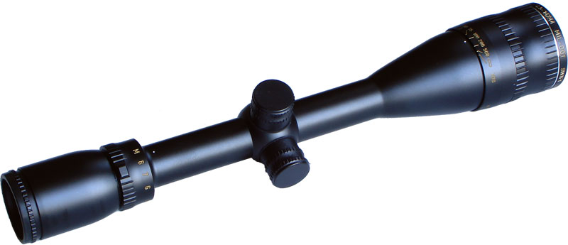 Swift 687M rifle scope. I took this photograph and hereby release it into the public domain. -- Captaindan 00:49, 4 October 2006 (UTC)